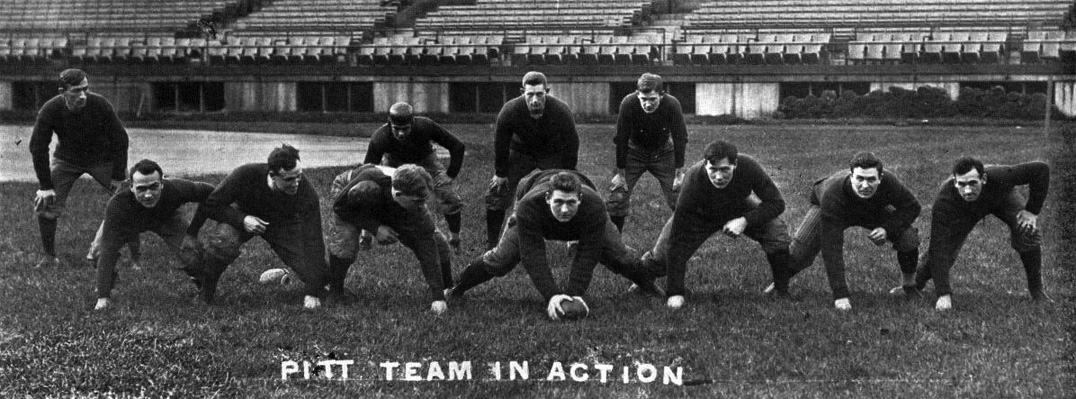 The undefeated and unscored upon 1910 University of Pittsburgh football team. Led by head coach Joe Thompson and captain Tex Richards, Pitt went 9-0 and outscored its opponents 282-0. Photo from the 1912 Owl student yearbook.